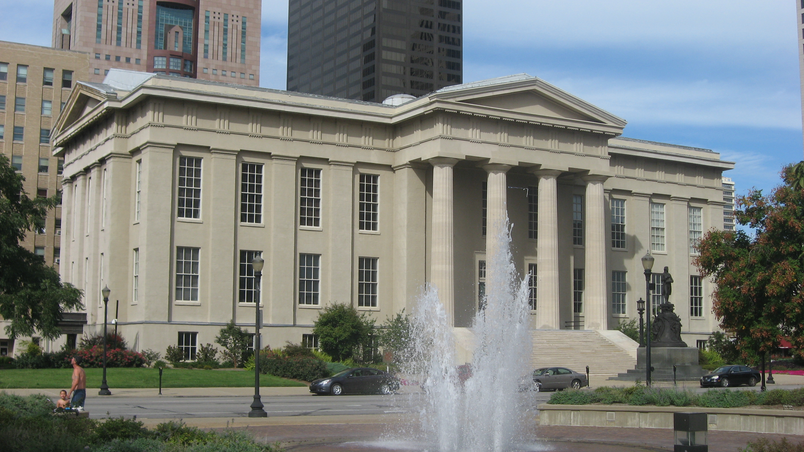 Front of the Jefferson County Courthouse, located at 517 W. Court Place Street along U.S. Route 60 in Louisville, Kentucky, United States. Built in 1835, it is listed on the National Register of Historic Places.